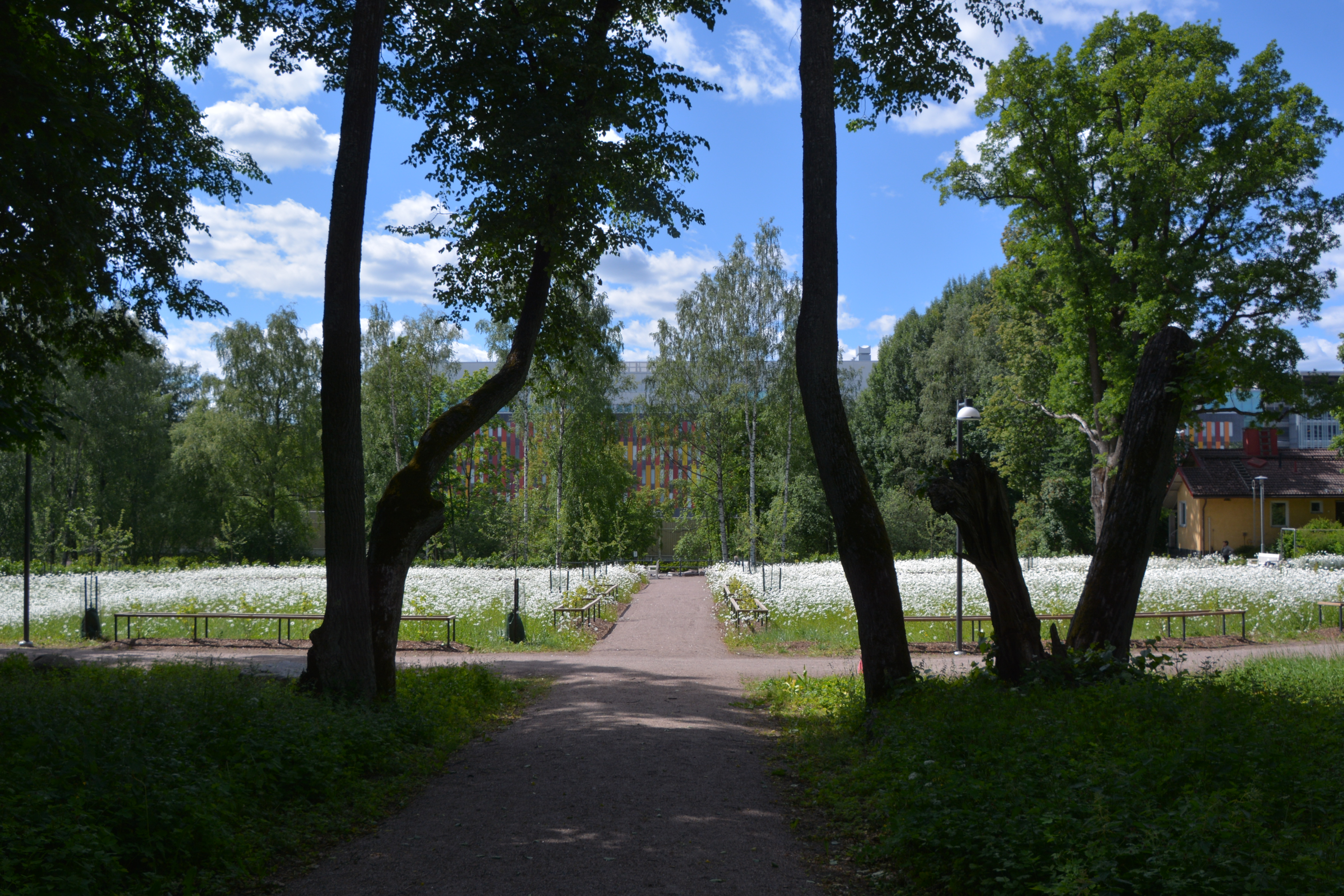 Gamla Alberga trädgård österifrån, från den tidigare manbyggnaden